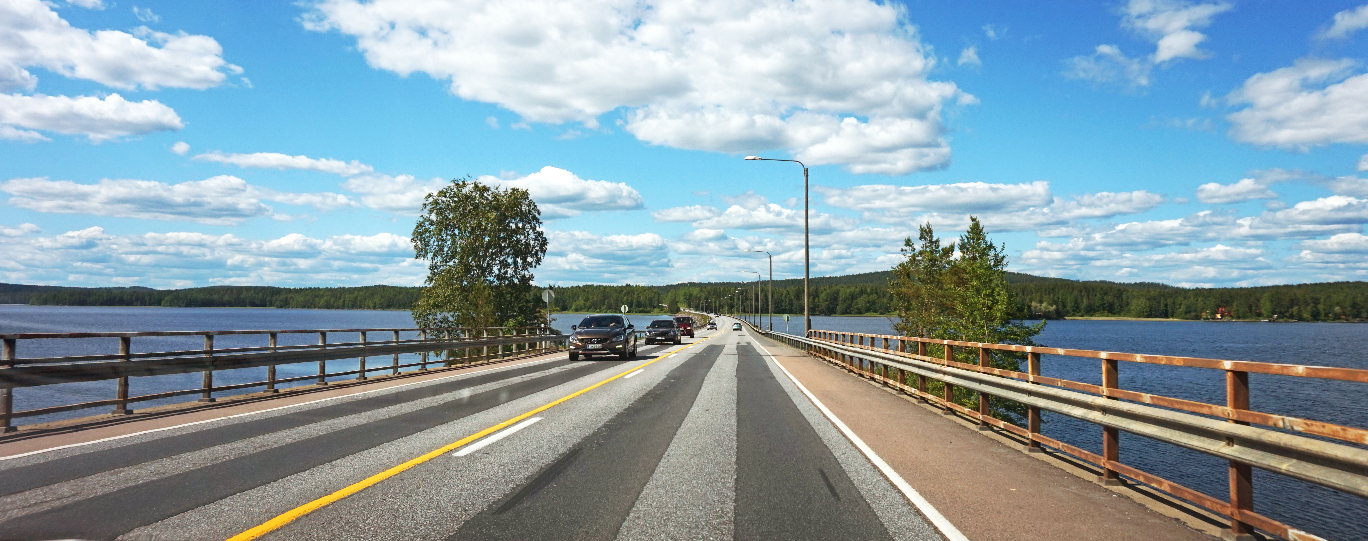 The Kuopiontie road (main roads 9/E63, 12 and 23) between the lake Leppävesi in Jyväskylä, Finland.